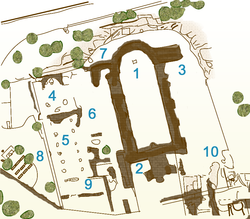 Emmaus Nicopolis Sketch